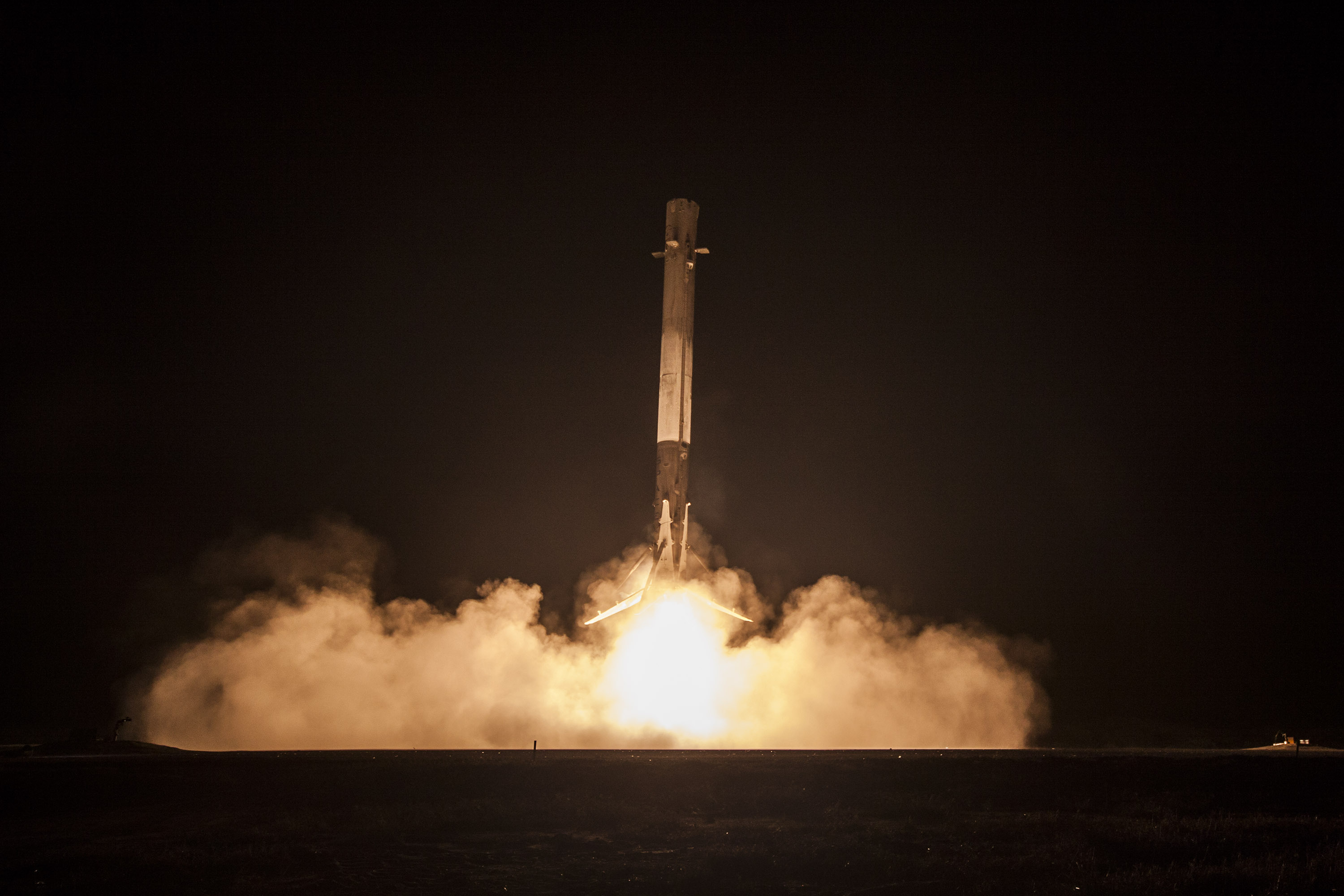 ORBCOMM-2